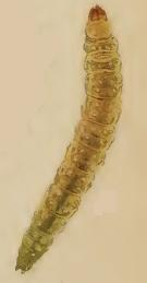 Stainton’s Natural History of the Tineina (1855–1873): Bucculatrix cidarella externally feeding larva